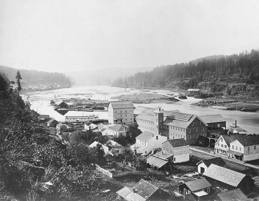 Oregon City in 1867, showing Willamette Falls and flour mills: A sternwheeler is shown in the boat basin above the falls, and another sternwheeler is visible at the landing below the falls. This is one of a set of prints taken in 1867. Watkin's negatives for this set was "sold" to J.J. Cook and I.W. Taber (thus constituting publication) when he was mired in financial troubles.[1][2] [3]